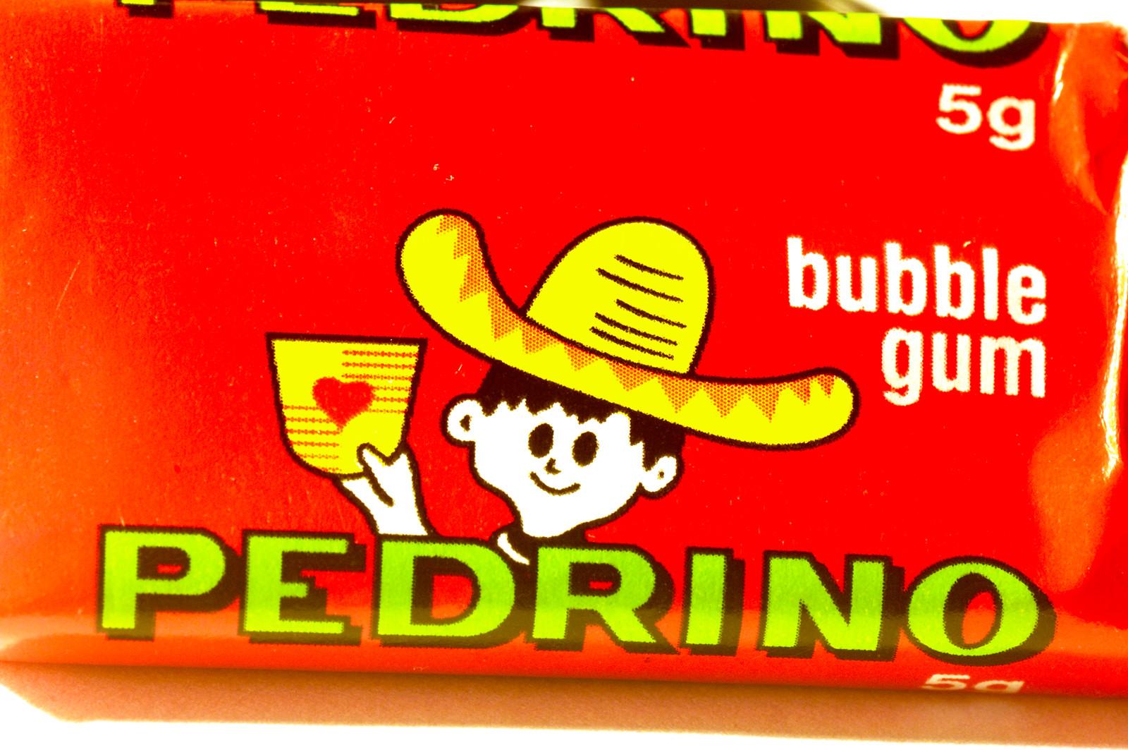 Czech bubble gum Pedrino